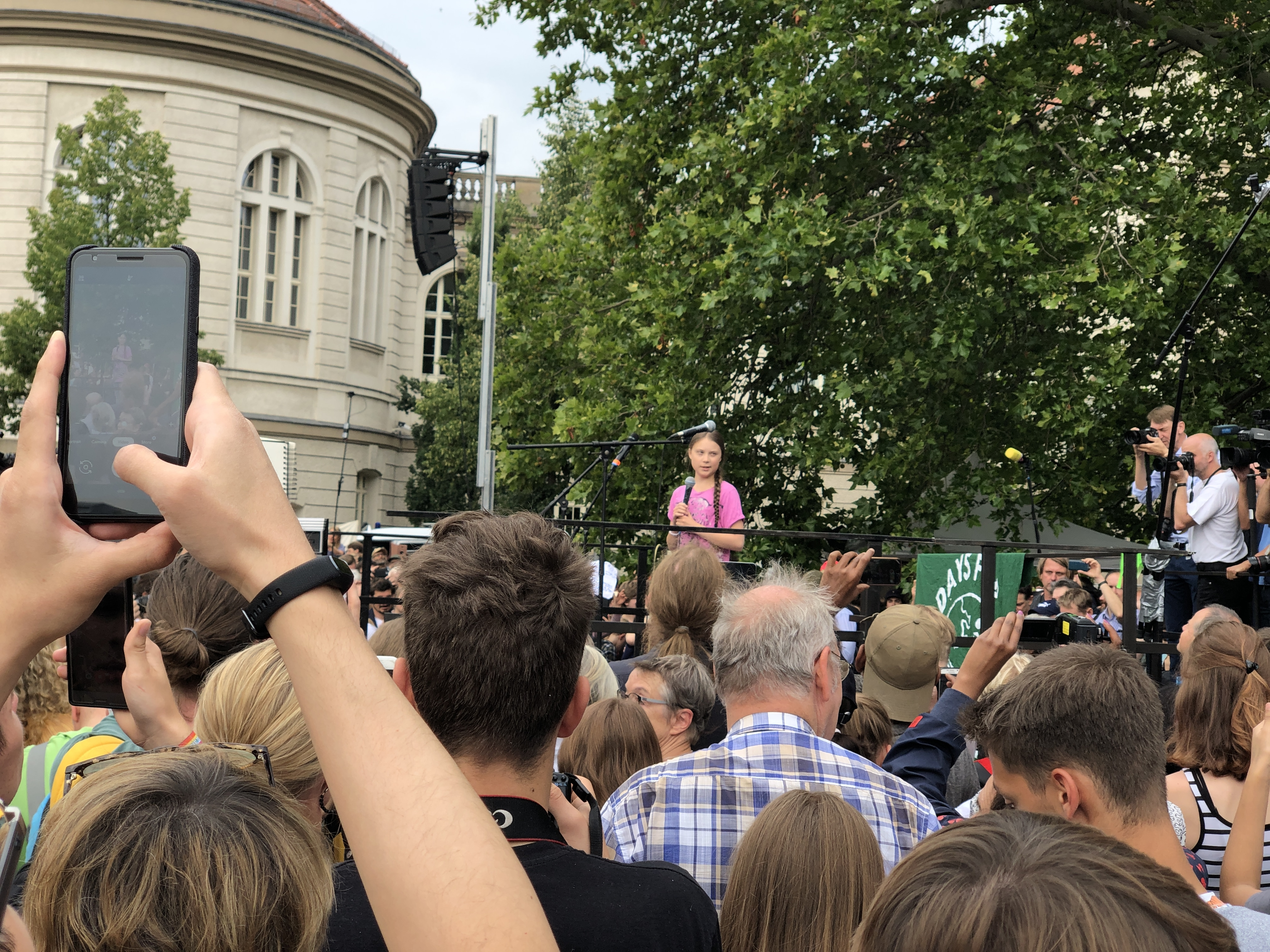 School strike for climate in Berlin 2019-07-19